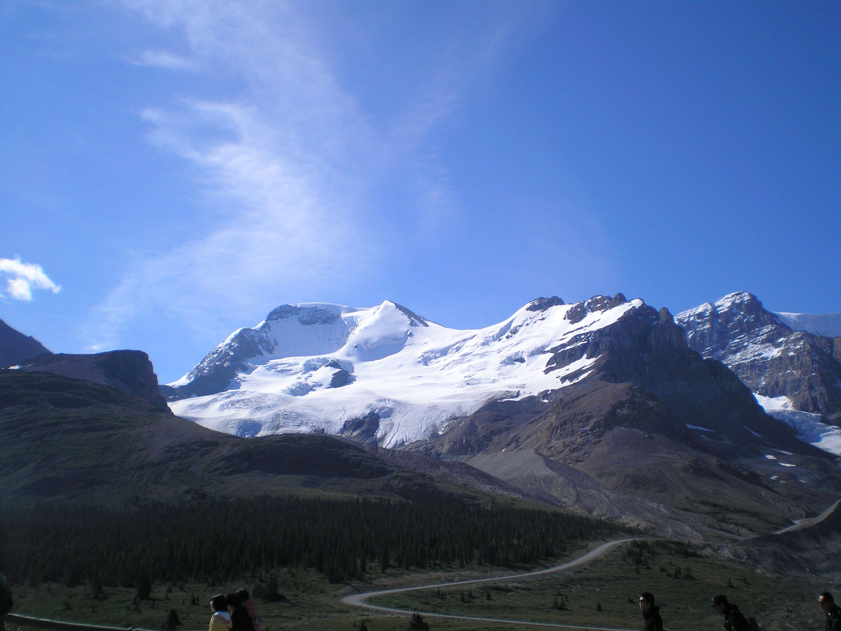 Mount Athabasca in Columbia Icefield, in Alberta, Canada.